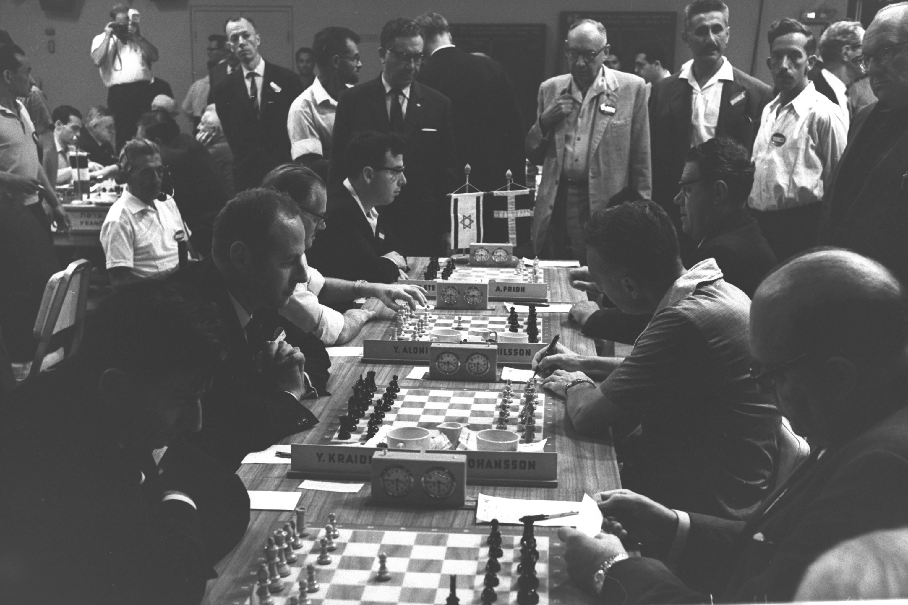 THE INTERNATIONAL CHESS OLYMPIAD, HELD AT TEL AVIV'S "SHERATON" HOTEL. IN THE PHOTO, A GAME BETWEEN SWEDEN & ISRAEL.